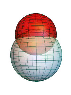 two intersecting spheres, transparent